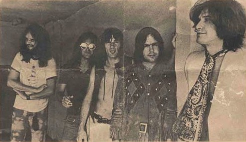 Promotional photograph of The Kinks, taken in 1970 or 1971. From left to right: John Gosling, Dave Davies, Mick Avory, John Dalton, Ray Davies (the band's lineup 1970–1976, 1978).